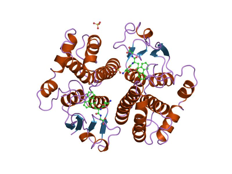 Cartoon representation of the molecular structure of protein registered with 2gst code.